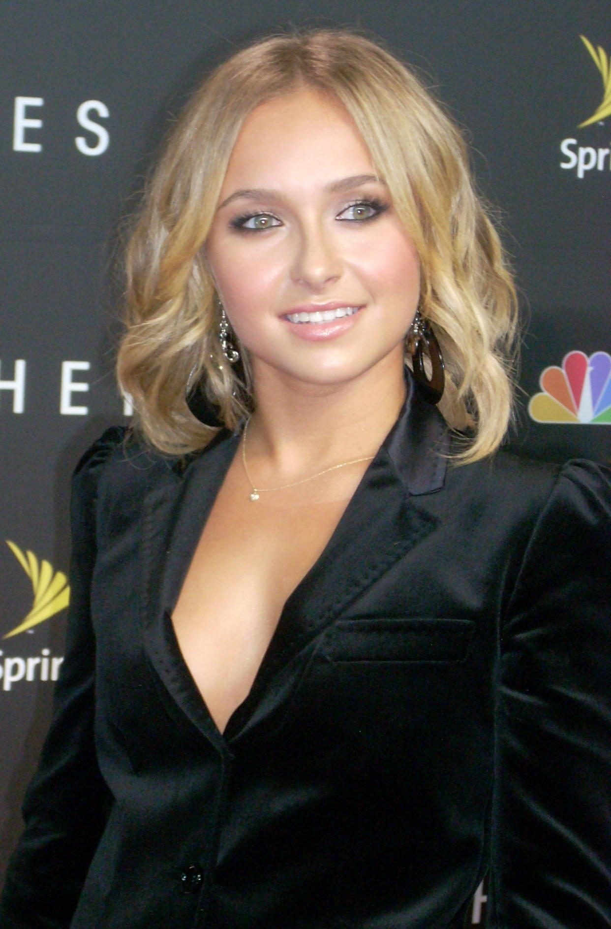 American actress Hayden Panettiere at the Heroes Season Three Premiere Party, Edison L.A., Downtown Los Angeles - Sept. 7, 2008